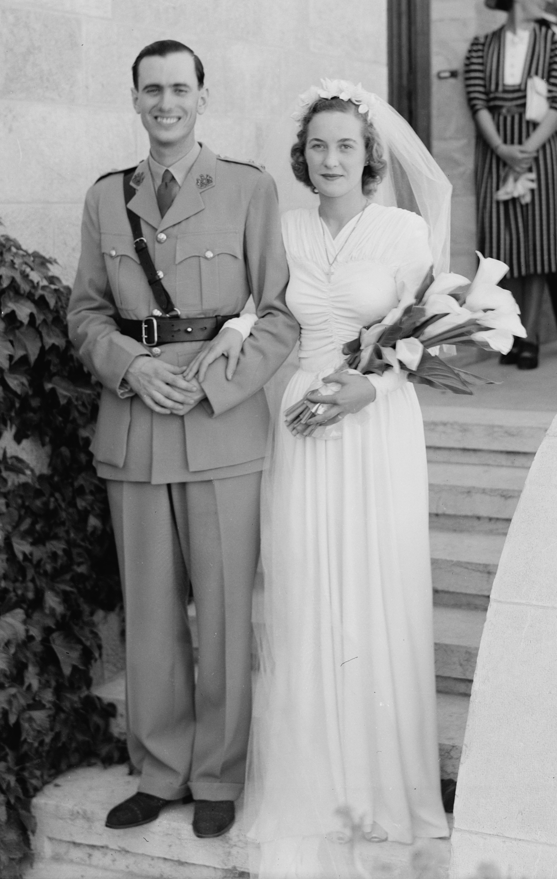 Watson wedding